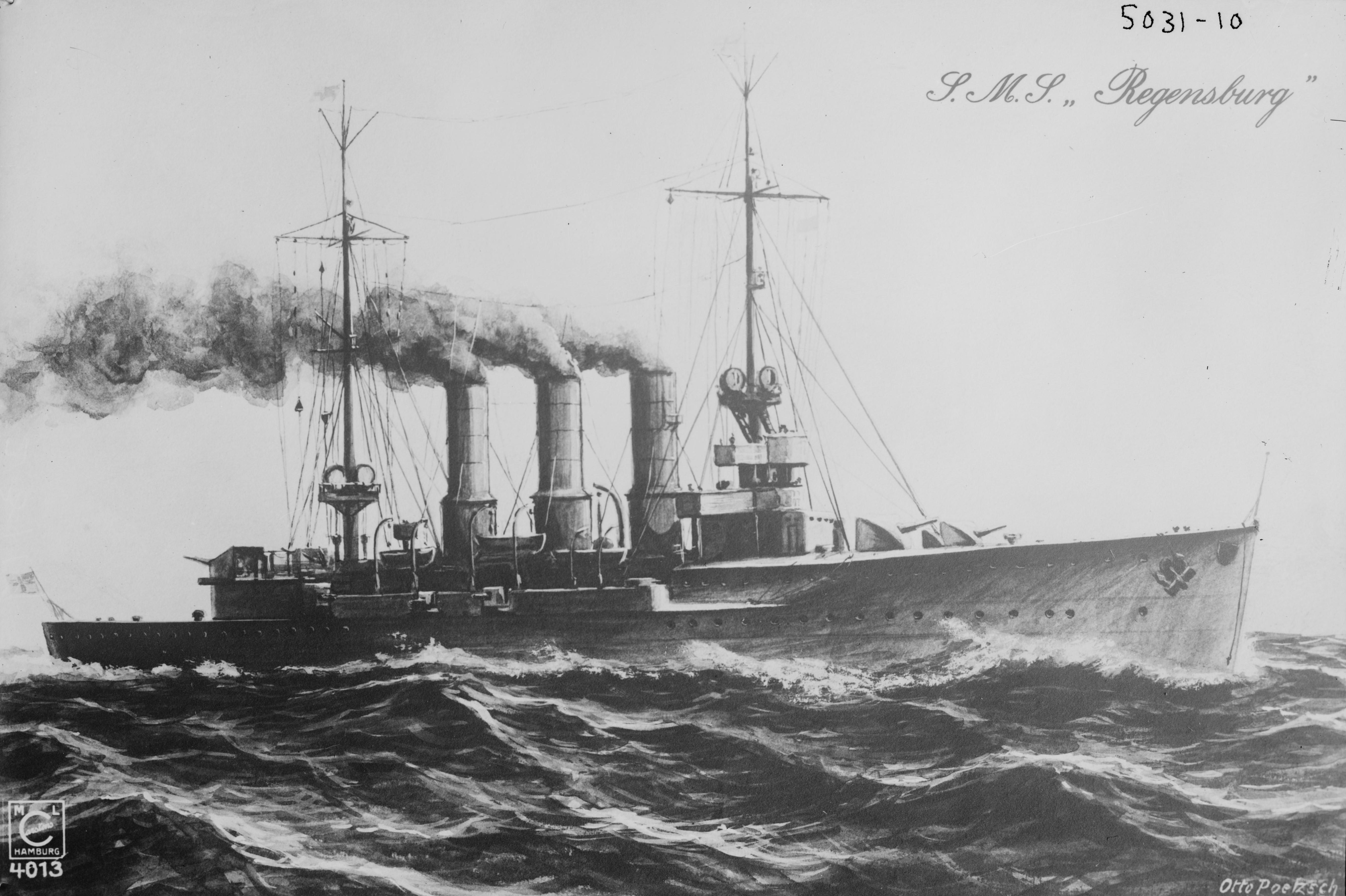 Title: REGENSBURG Abstract/medium: 1 negative : glass ; 5 x 7 in. or smaller.